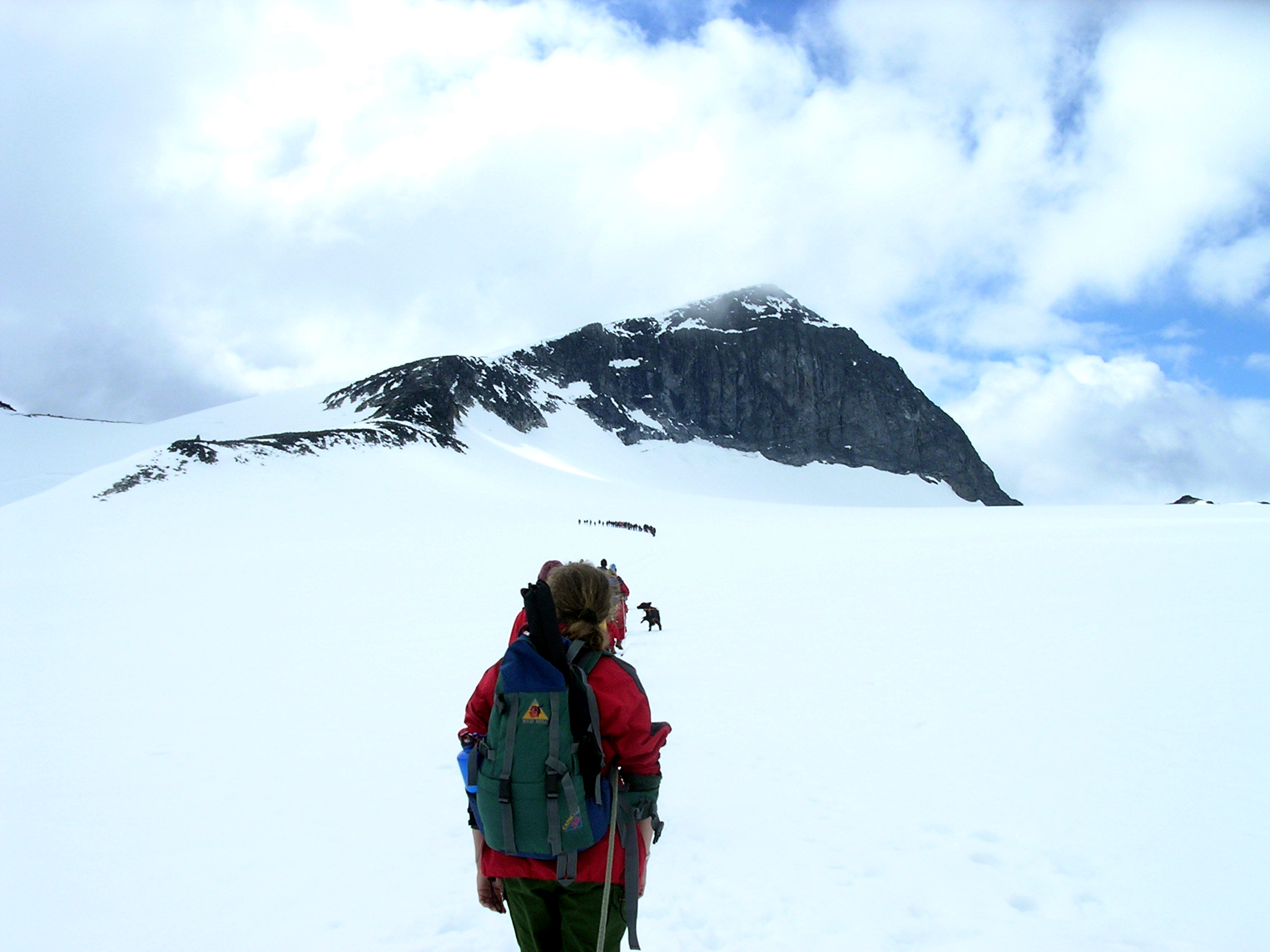 Galdhøpiggen 2469 metres above sea level, seen from the glacier Styggebrean in north-east.